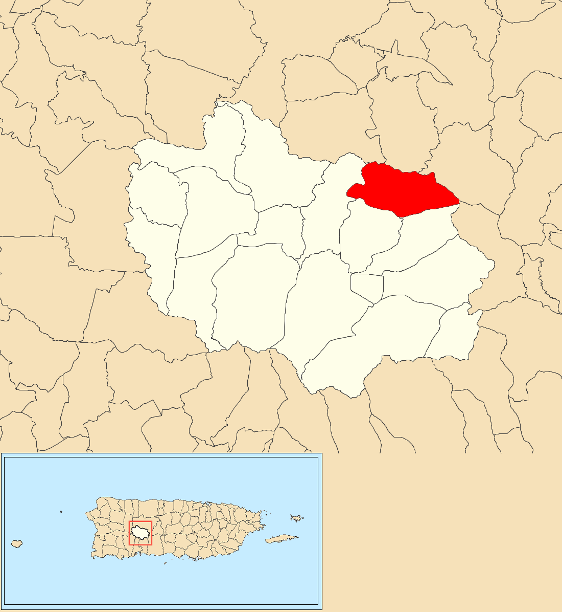 Pellejas, Adjuntas, Puerto Rico locator map